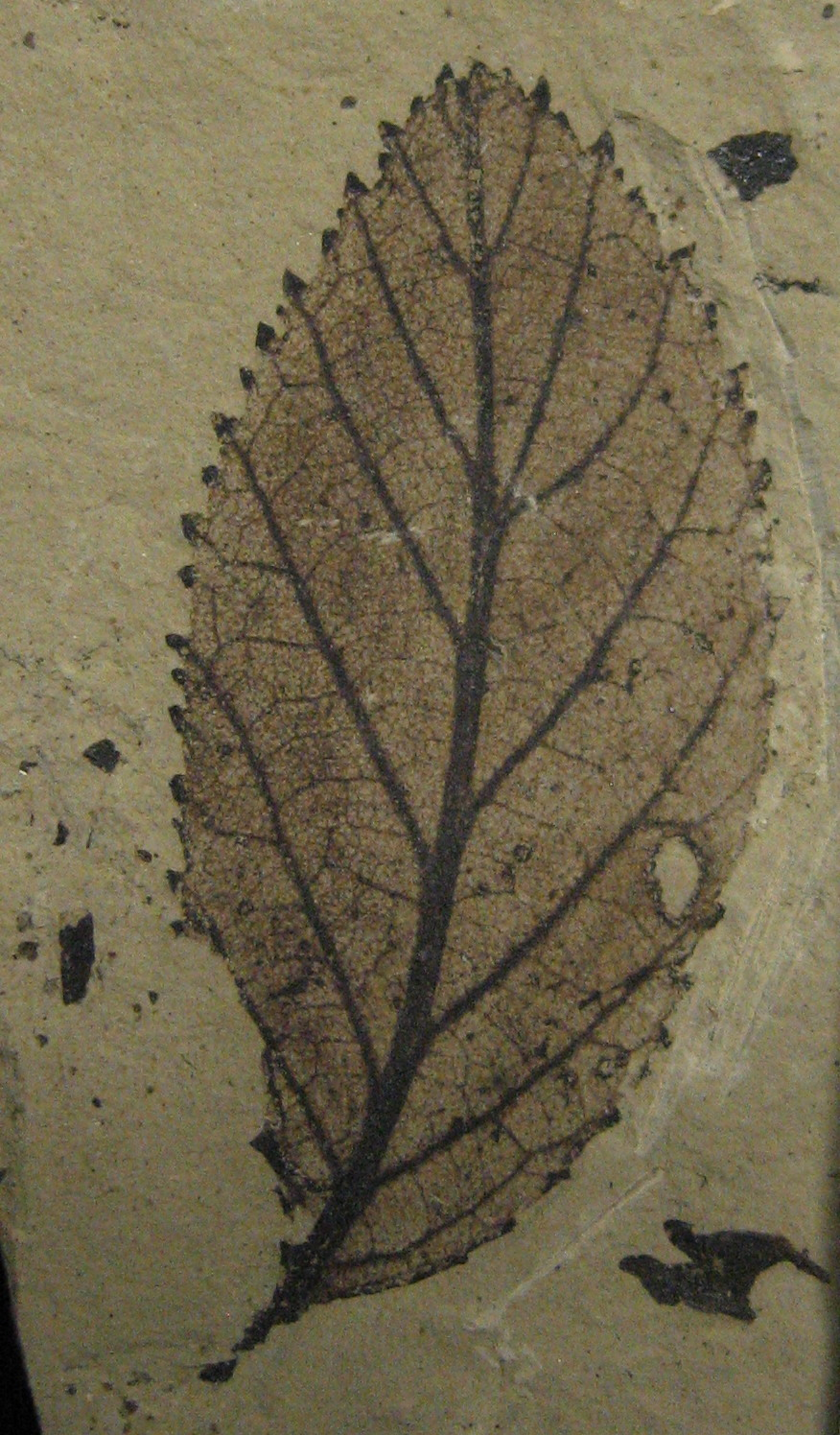 A 4cm tall (including petiole) juvenile leaf belonging to the extinct species Alnus parvifolia 49 million years old, Klondike Mountain Formation, Republic, Washington. Stonerose Interpretive Center Collections# SR 01-07-69.